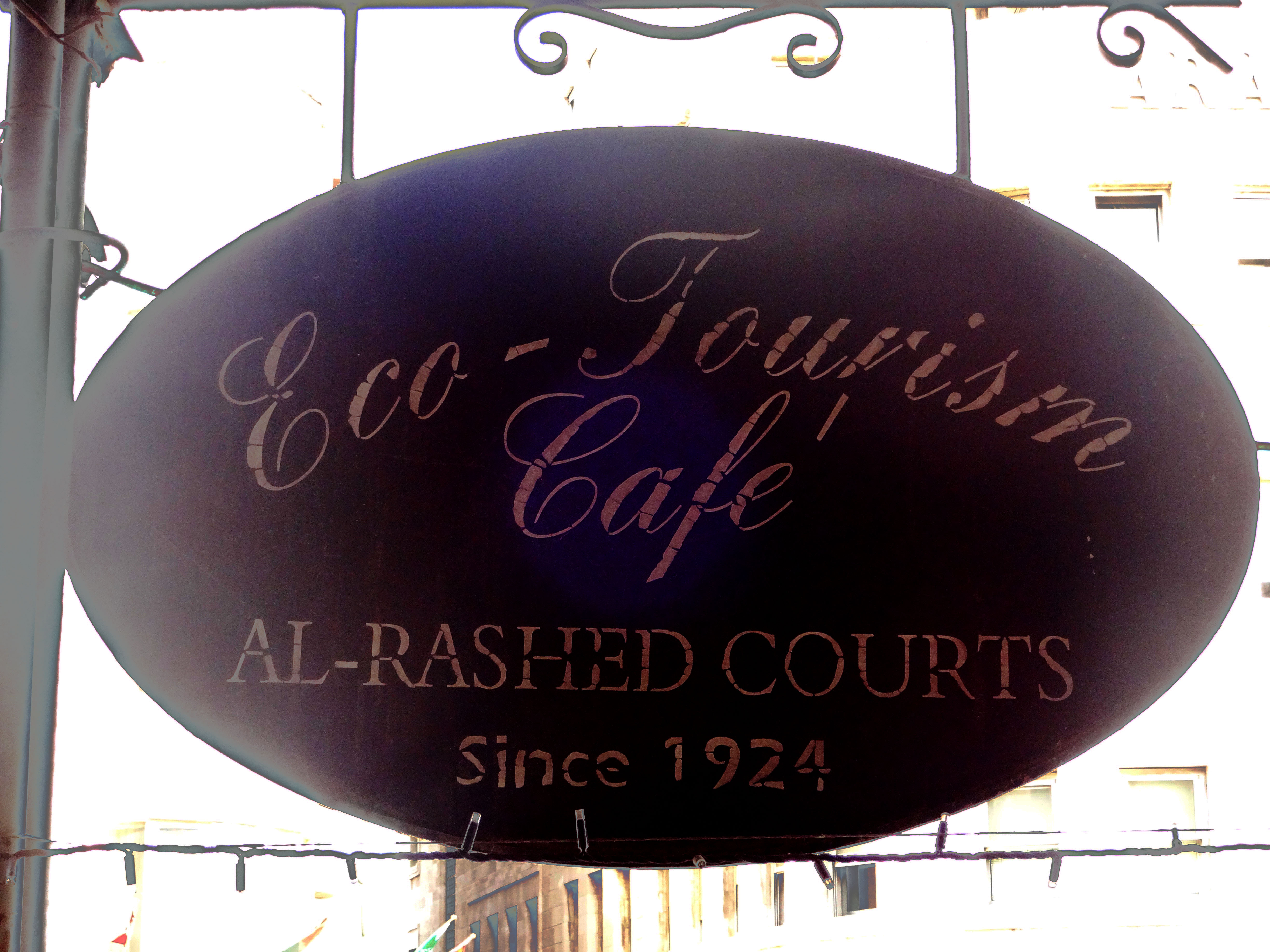 Old Amman Market and central area. Very famous Soque and a tourist magnet